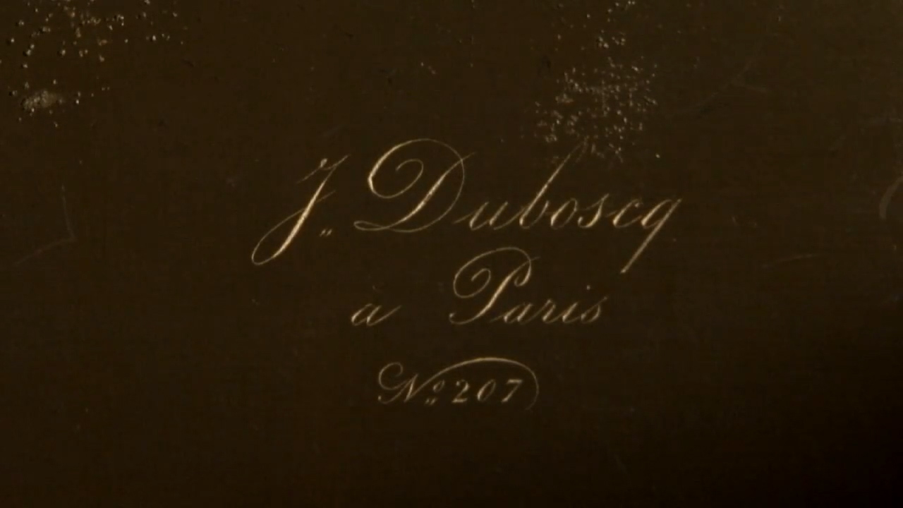 J.Duboscq's signature